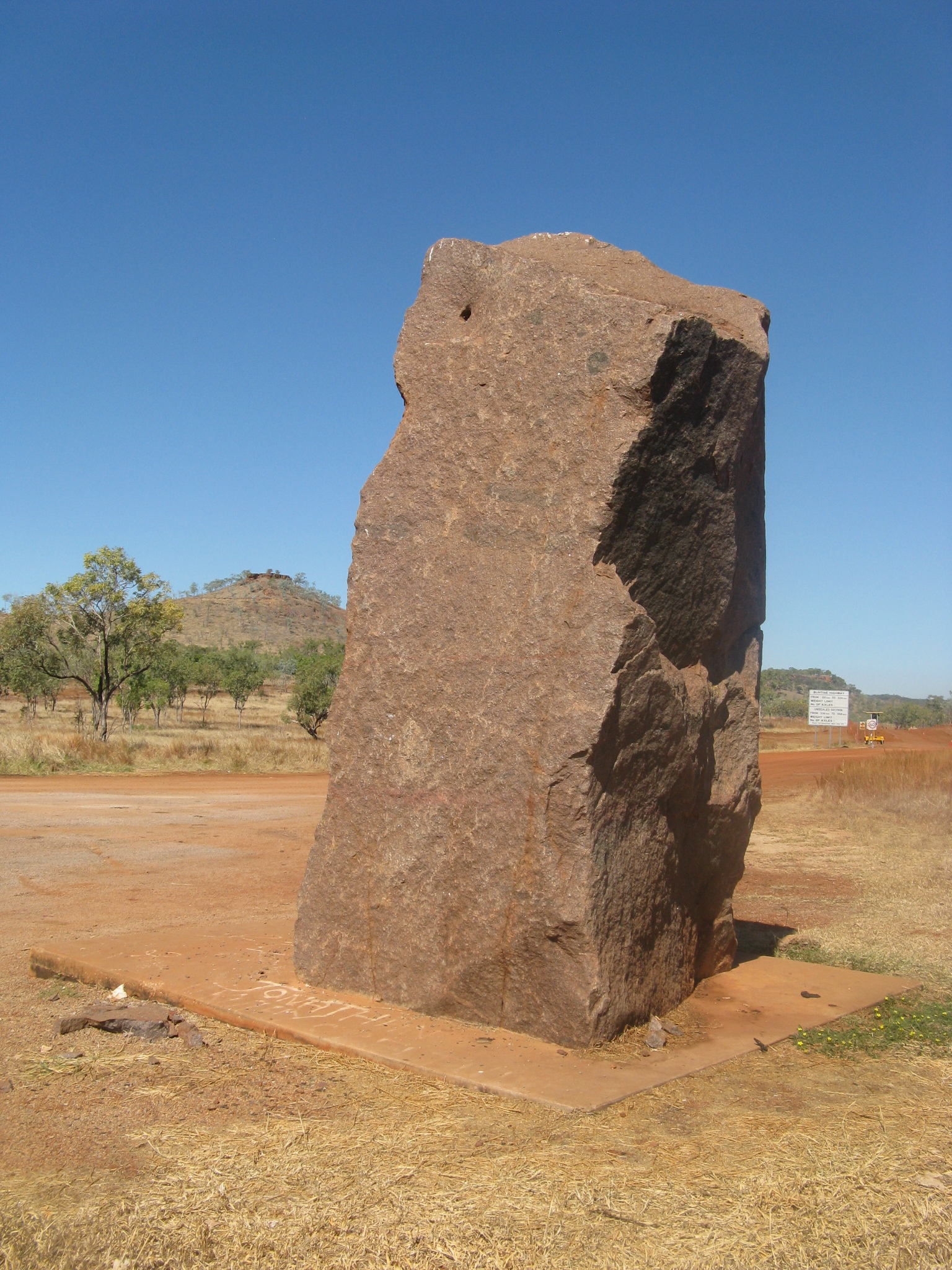 Buntine Memorial, Victoria Highway, Northern Territory/Australia